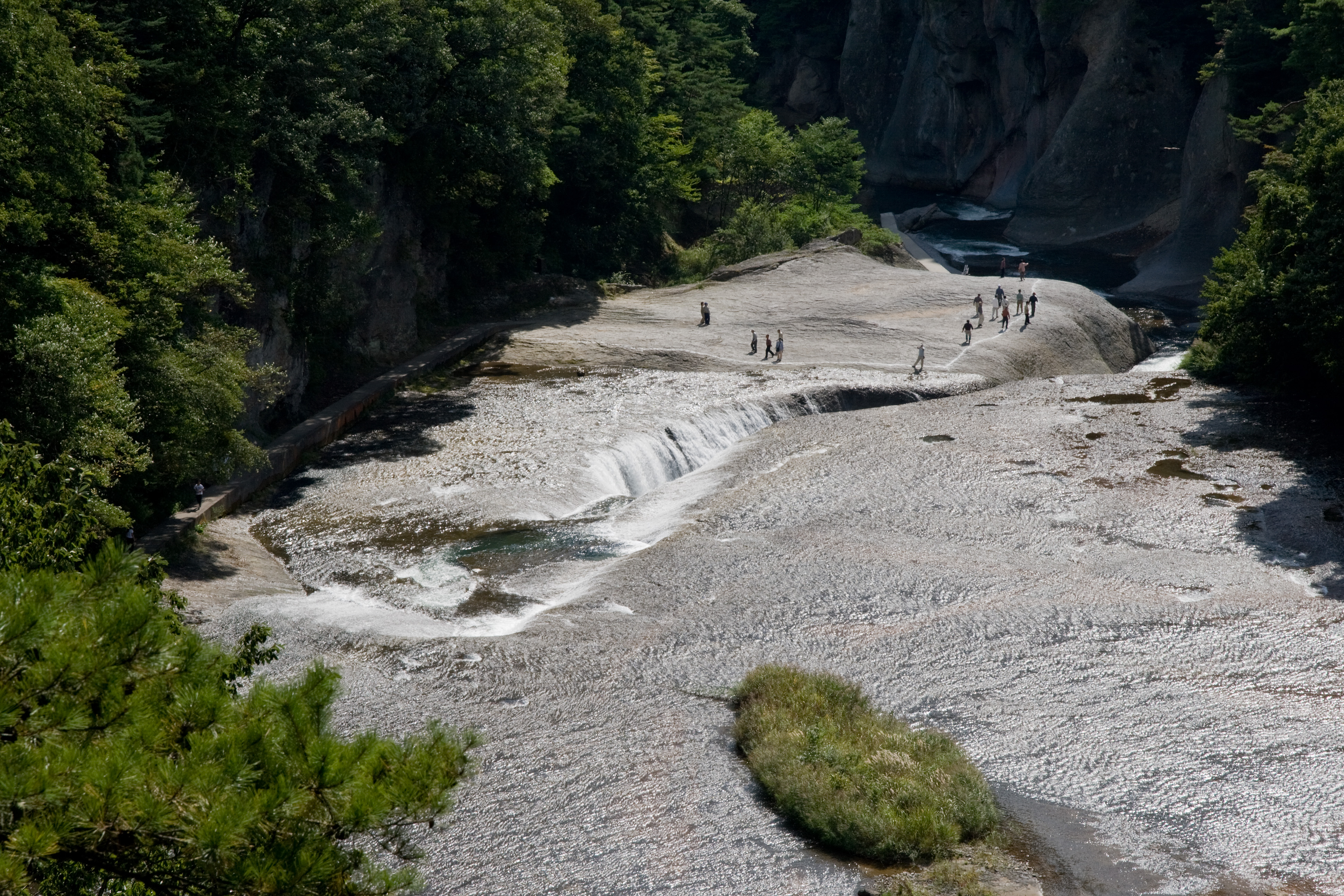 Fukiware falls (Fukiware-no-taki 吹割の滝) in Numata City, Gunma Pref., Japan.